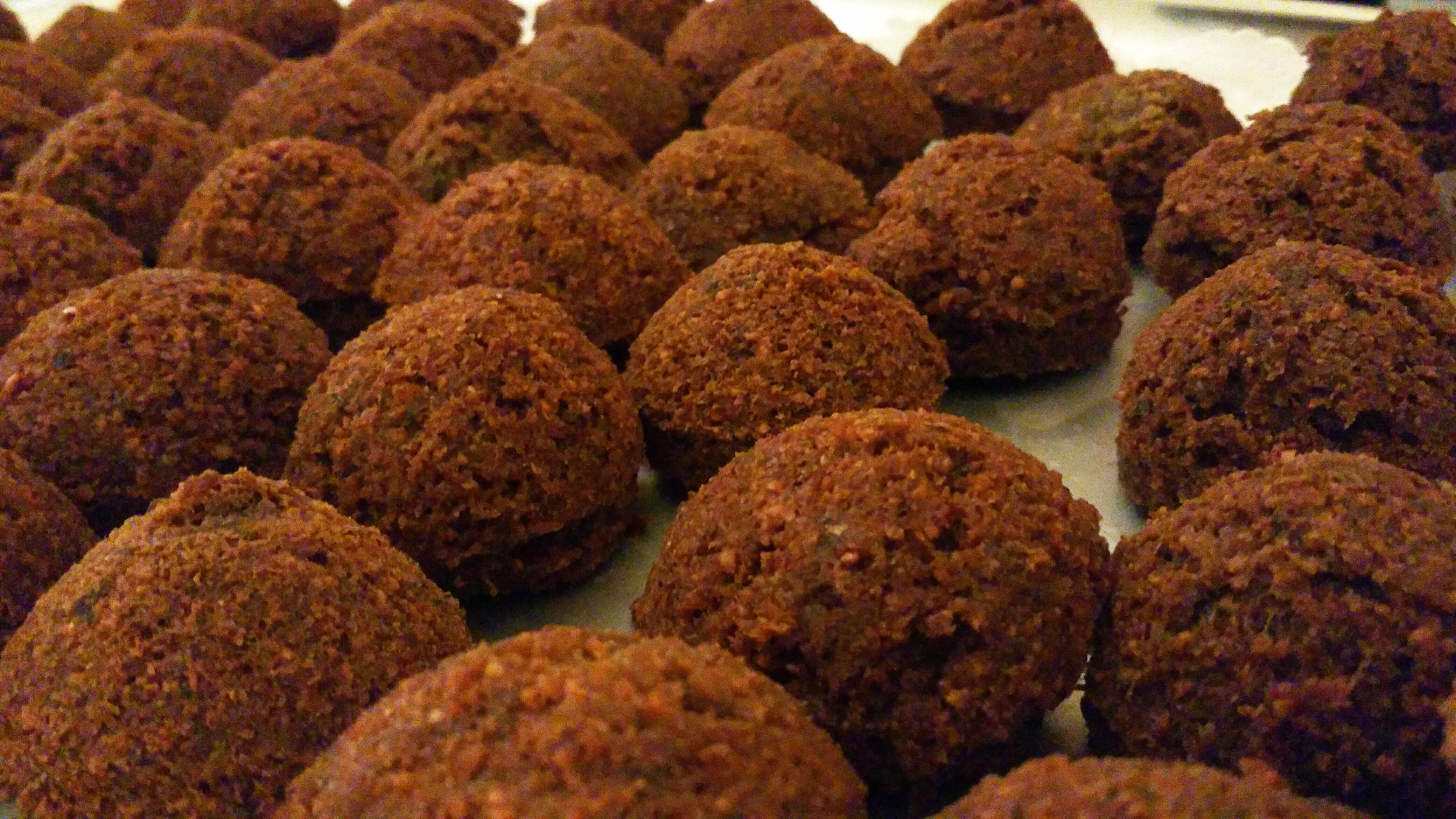 Rows of falafels, lebanese fried patties made of chickpeas